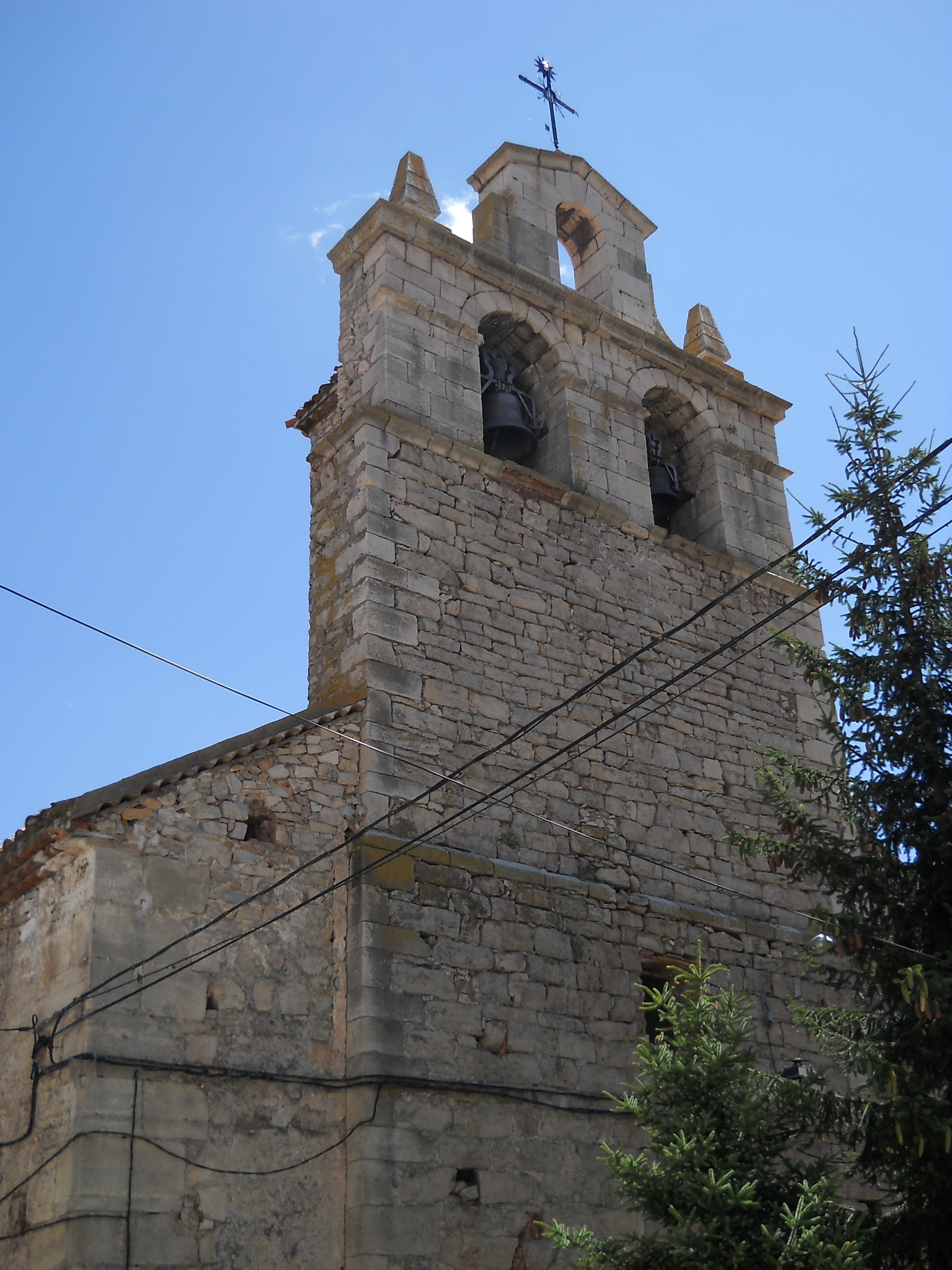 Church of San Miguel, Tragacete, Cuenca, Spain